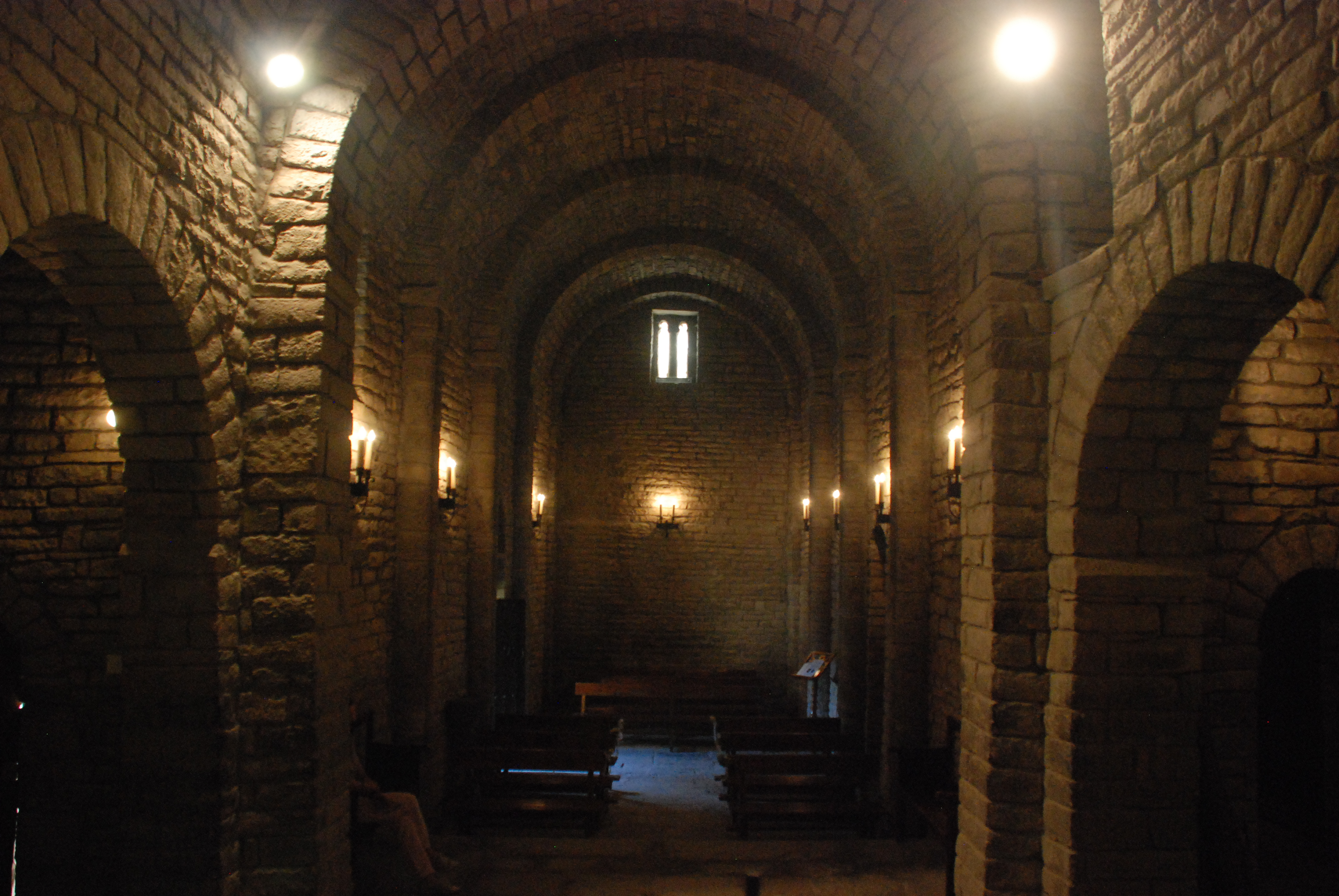 Nave of San Pedro de Lárrede, S. XI, it is part of the group of Mozarabic Churches in the Serrablo (Huesca, Spain)